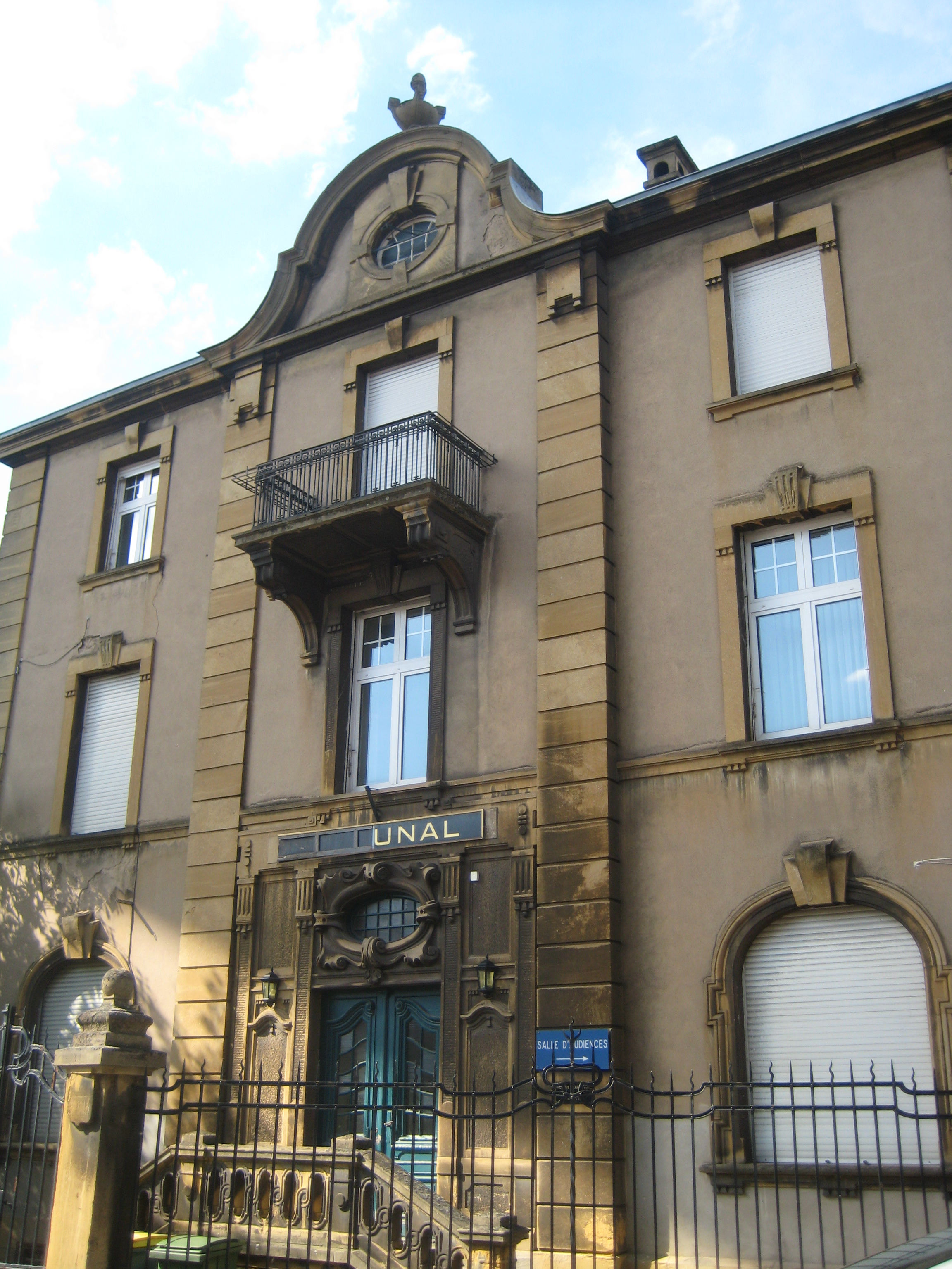 Description tribunal Hayange Date26 August 2011Sourcemon appareil photoAuthorAimelaimePermission(Reusing this file) tribunal Hayange